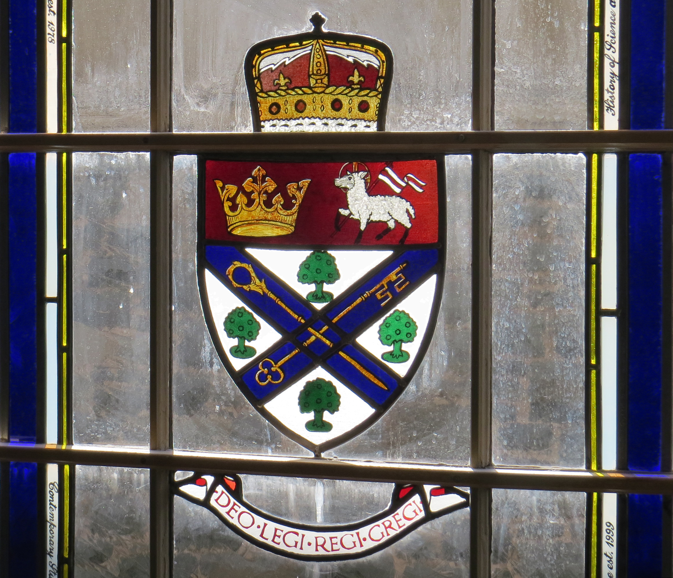 Photograph of a stain glass window depicting the school crest at the University of King's College, Halifax.